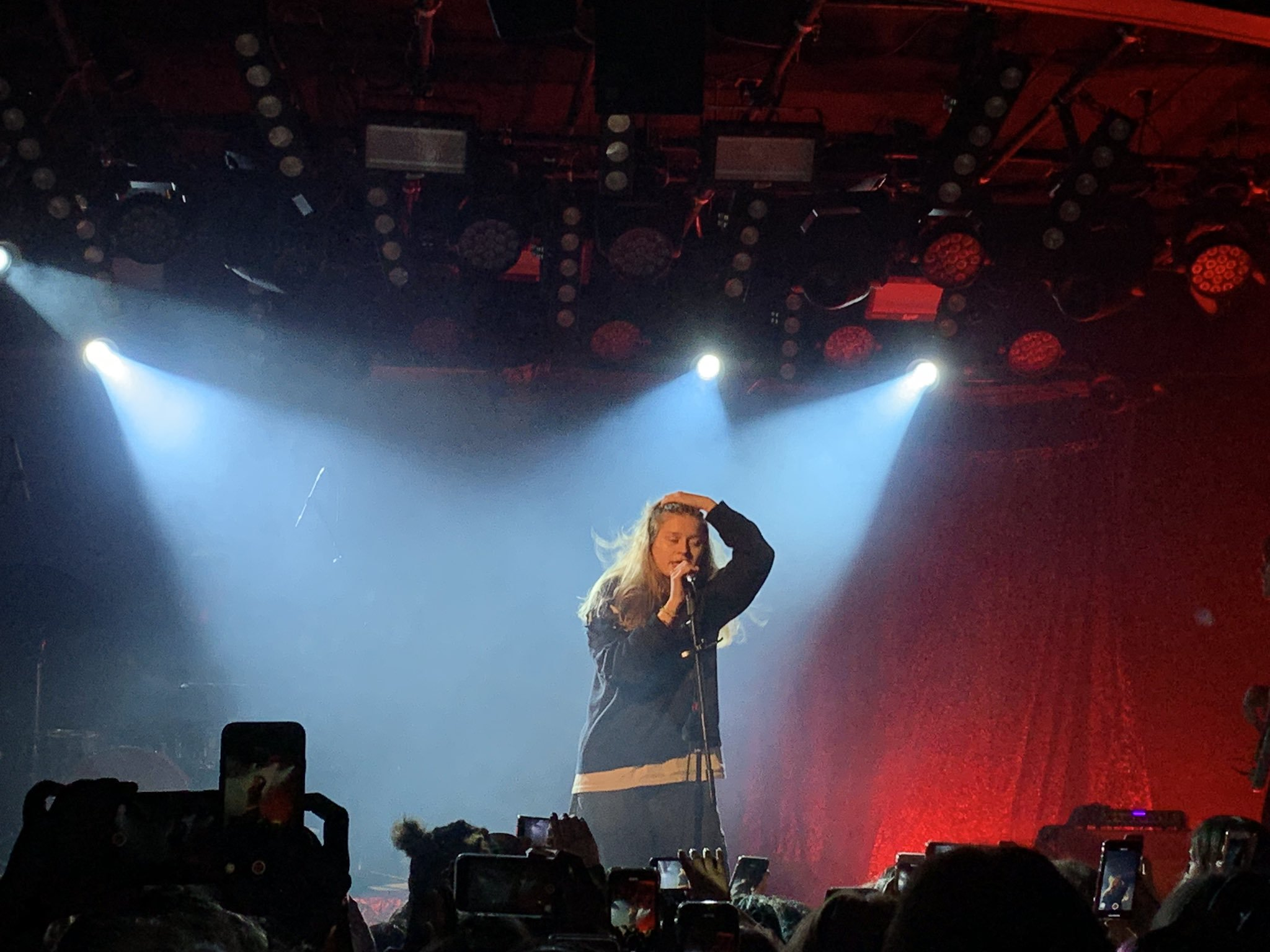 Girl in Red performing in Los Angeles in 2019